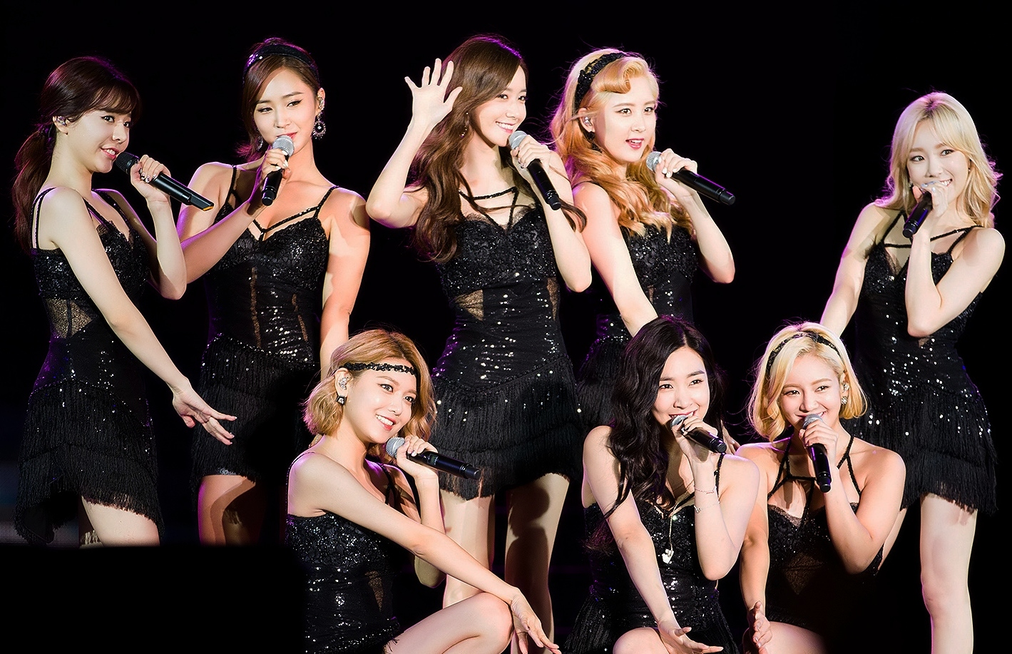 Girls' Generation at MBC Radio DJ Concert on September 6, 2015.